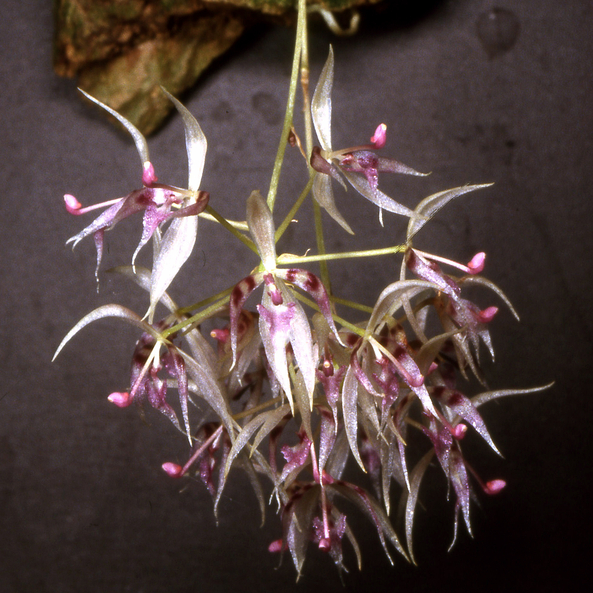 Macroclinium xiphophorus